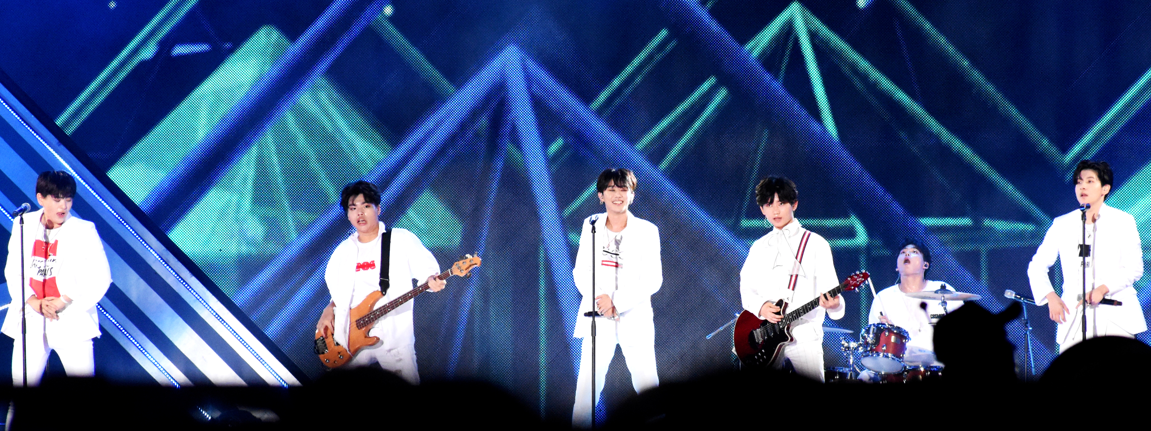 The East Light at the 2018 Incheon Airport Sky Festival on September 2, 2018. Аҧсшәа: 2018년 9월 2일 스카이페스티벌에서의 더 이스트라이트.